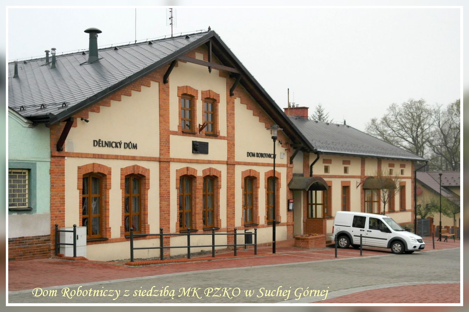 Dělnický dům v Horní Suché